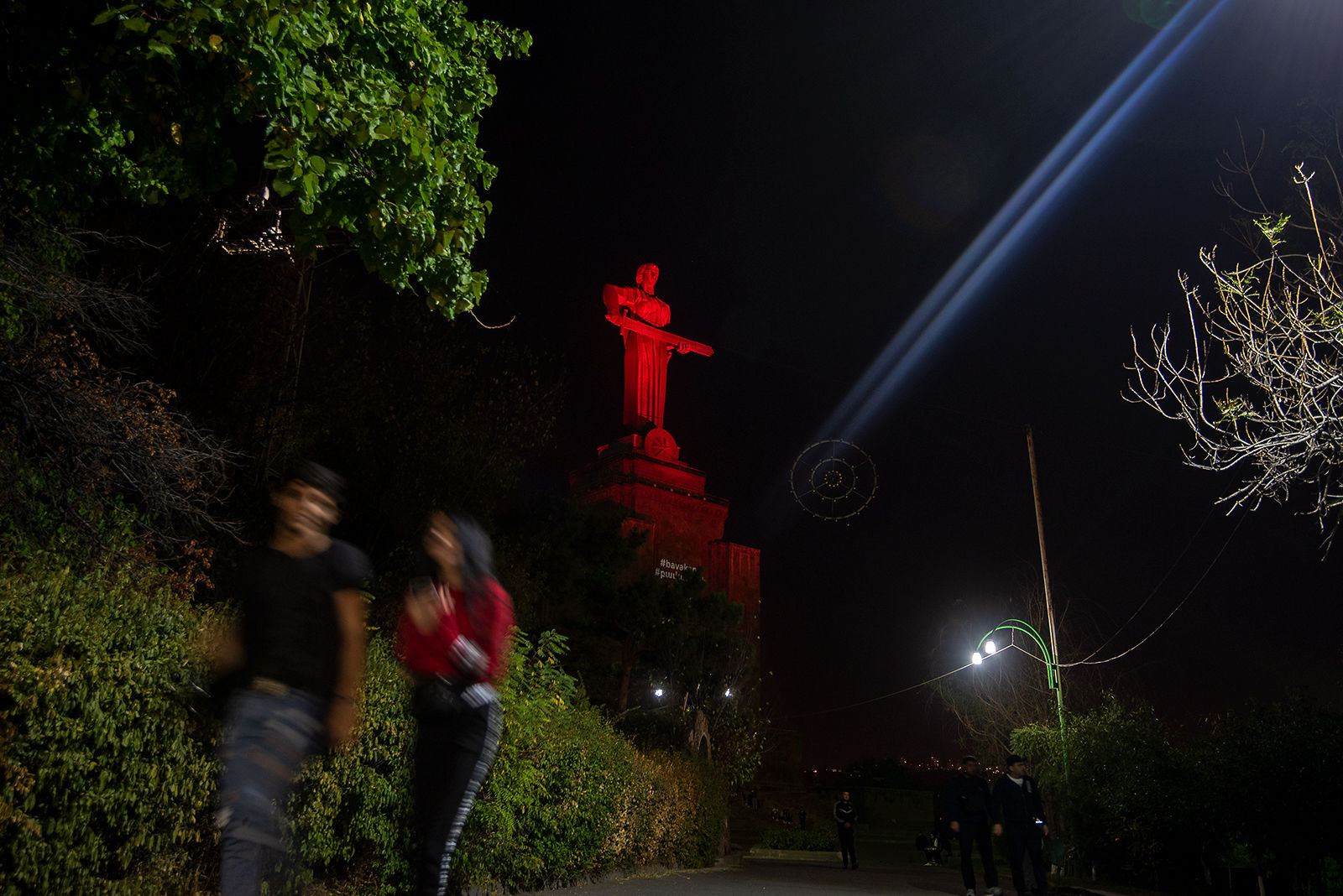 Red Mother Armenia, #Bavakane Social Campaign against sex-selective abortions in Armenia, October 11, 2019 Կարմիր Մայր Հայաստան, #Բավականէ սոցիալական արշավ ընդդեմ սեռով պայմանավորված հղիության արհեստական ընդհատումներին Հայաստանում, 11 հոկտեմբերի, 2019թ․։